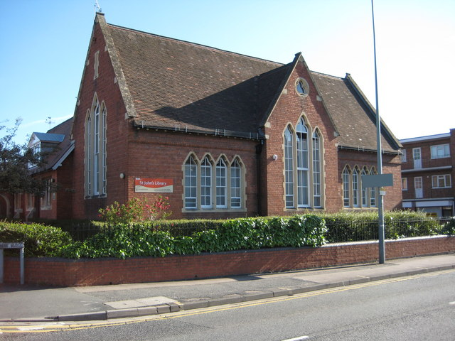 St John's Library, Worcester St John's Library is situated on Bromyard Road.